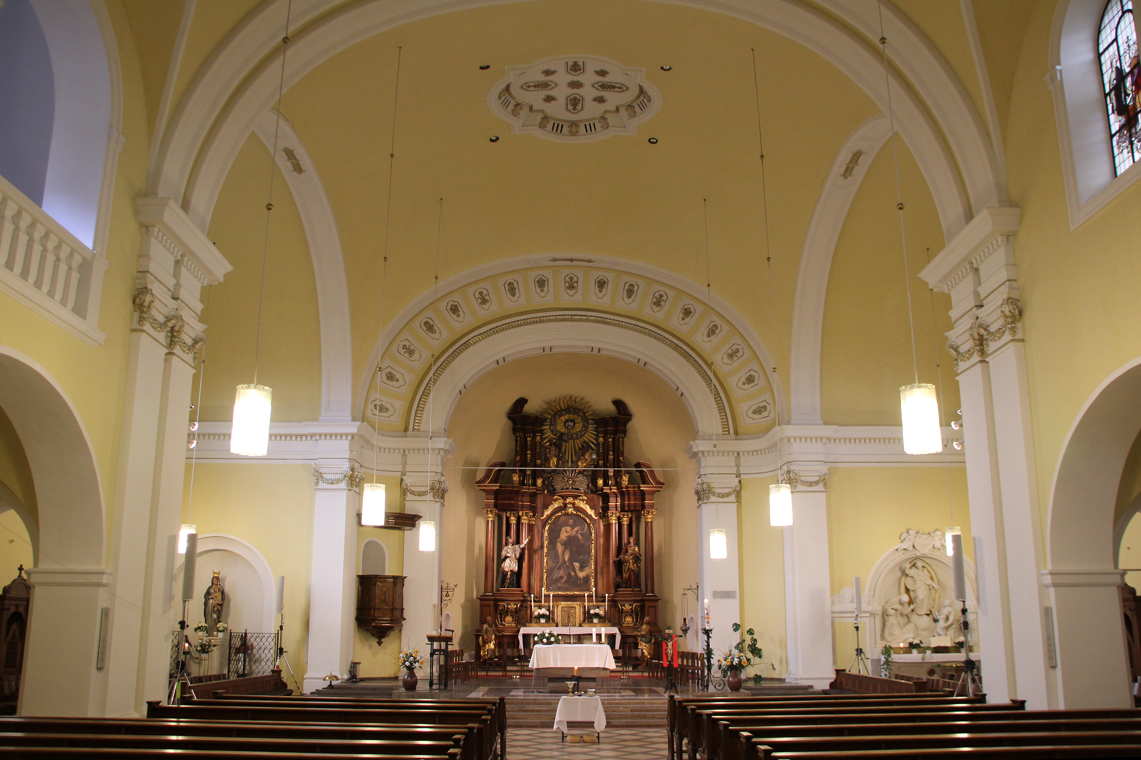 St. Johannes Church in Koblenz